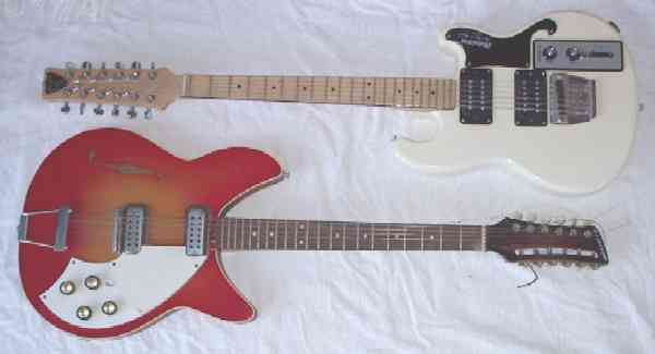 Two electric 12 string guitars. Top: Shergold Modulator 12, 1975 Bottom: Maton Magnetone TB36/12, 1967 This is an original photograph by Andrew Alder, taken on 18 September 2003.